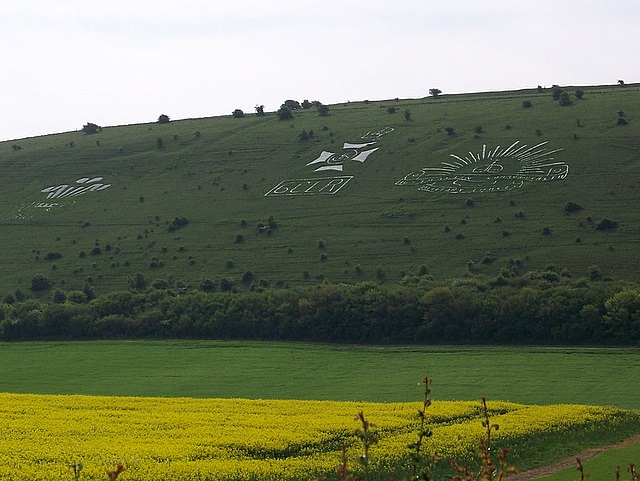 Fovant Badges The badges originate from 1916. From the left:- The Royal Wiltshire Yeomanry, 6th London Regiment and the Australian Commonwealth Military Forces.